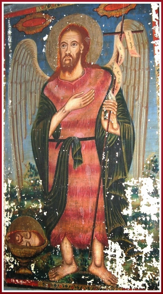 Saint John the Baptist Icon in Ano Melas (Gorno Statitsa) Church.